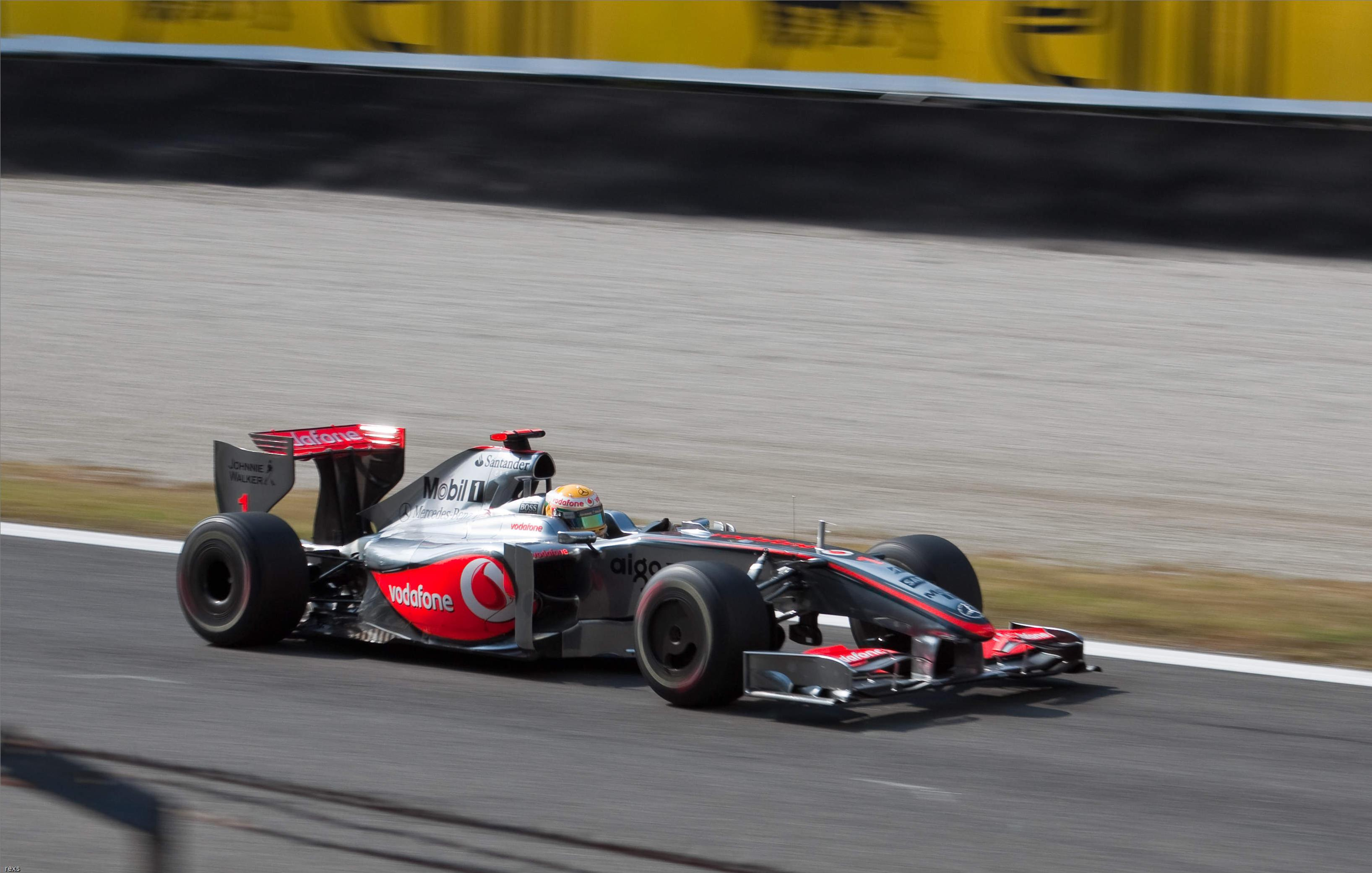 Lewis Hamilton driving for McLaren at the 2009 Italian Grand Prix.